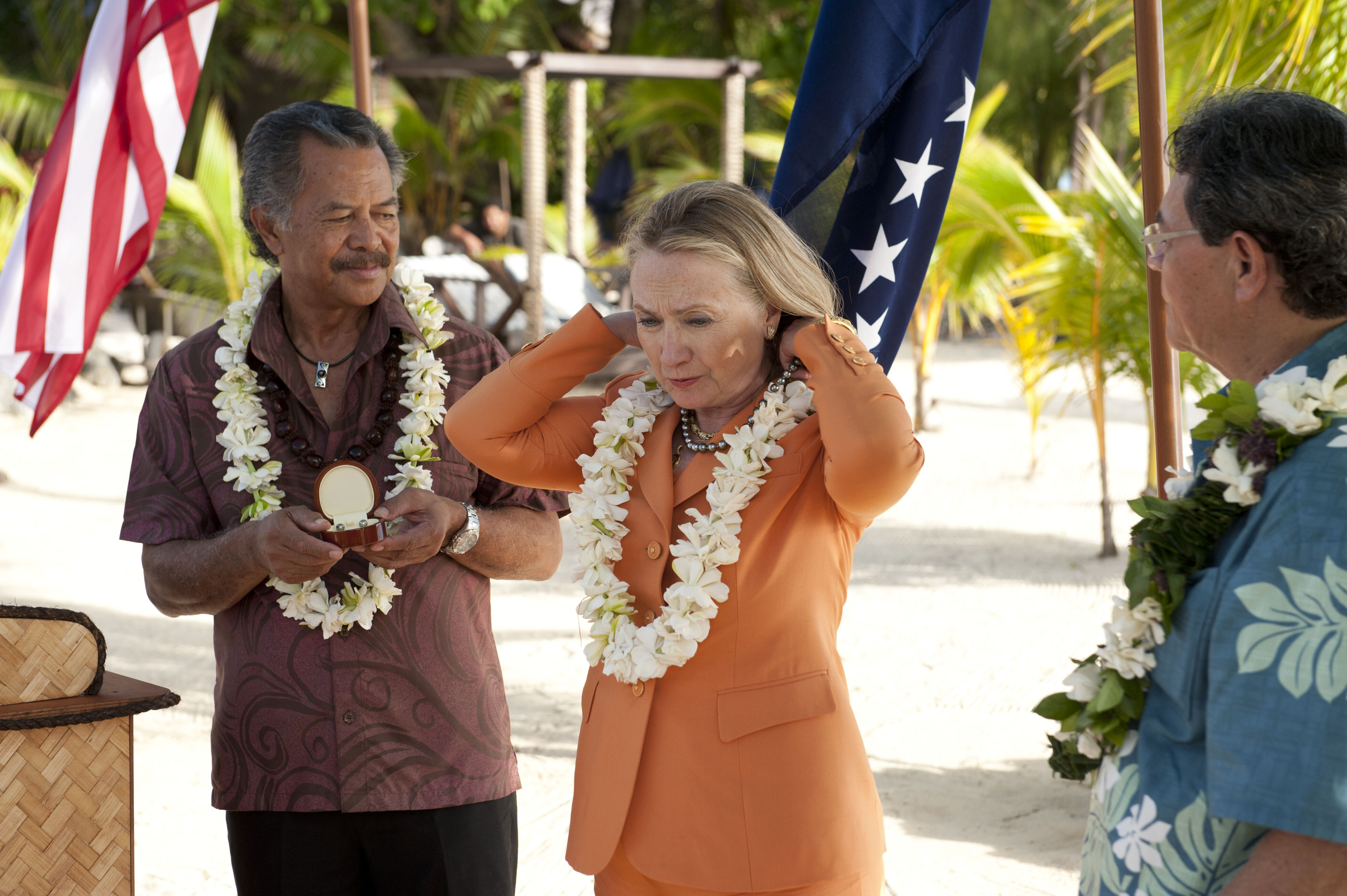 Prime Minister Henry Puna of the Cook Islands, and George Ellis, CEO of the Cook Islands Pearls Authority, watch as U.S. Secretary of State Hillary Rodham Clinton dons a black pearl necklace during a Sustainable Development and Conservation event in Rarotonga, Cook Islands, August 31, 2012. You can read Secretary Clinton's remarks at the event here: [State Department photo by Ola Thorsen/ Public Domain]